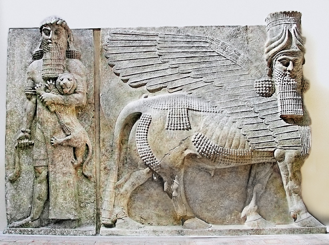 Statue aus Khorsabad (Musée du Louvre) Photograph: Luidger Hero mastering a lion-AO19862 Reproduction of a winged bull with human head-AO 30043